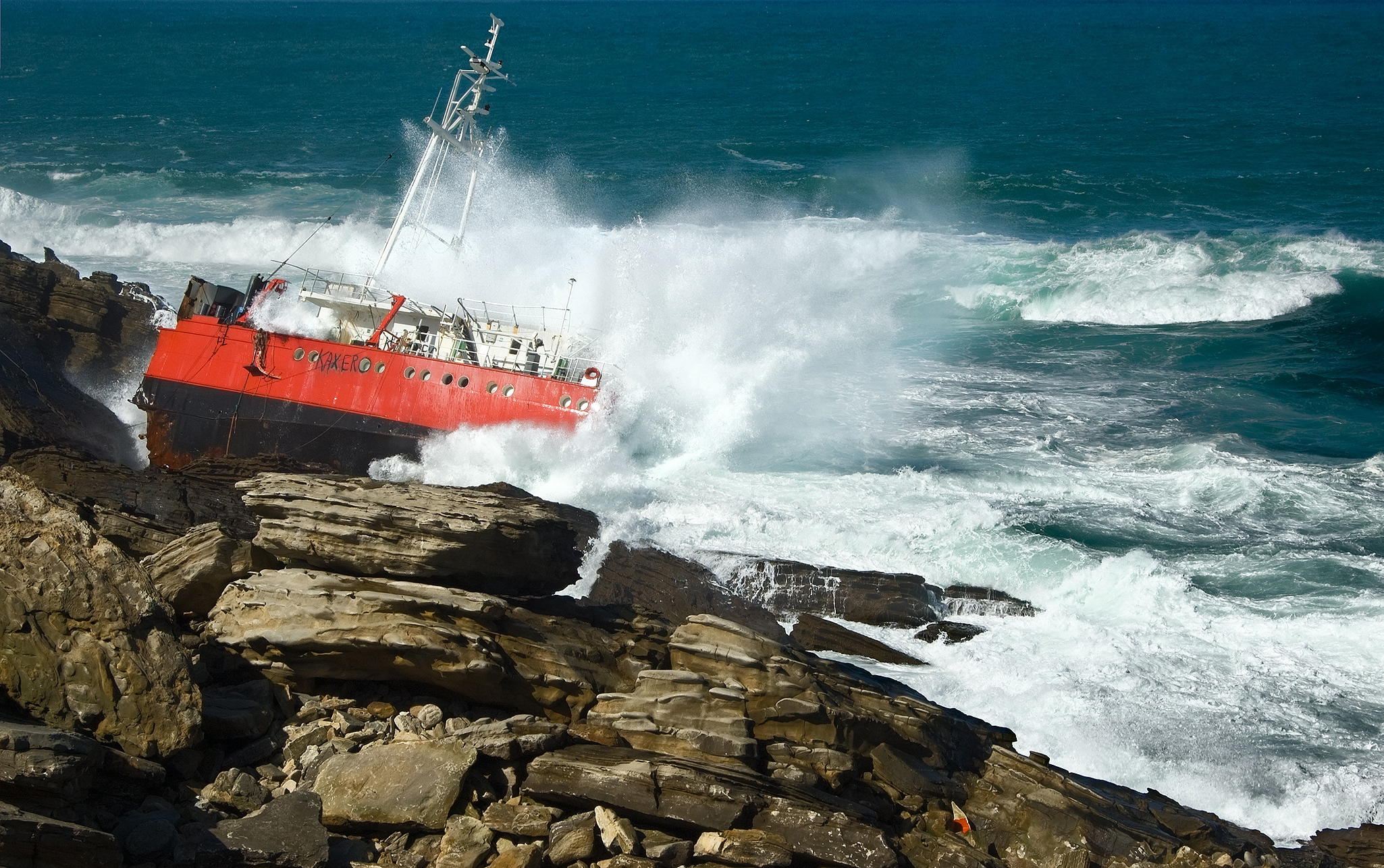 The 96 meters long Maro merchant ship ran aground on the coast of Gipuzkoa on March 6th, 2008. Four days later a severe storm broke the ship up in three pieces. The stern, with a grafiti on it, is shown here.